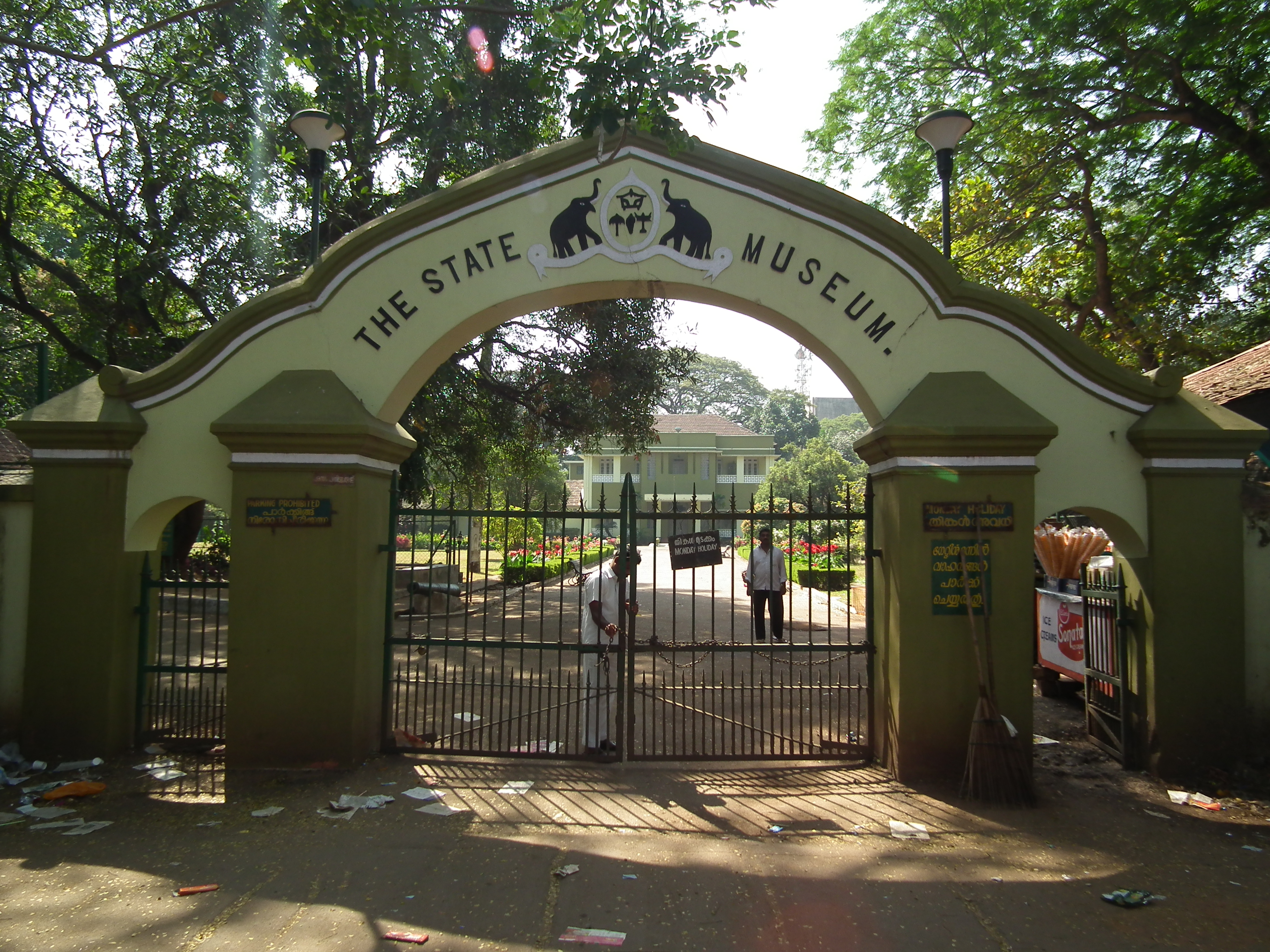 Snap from Thrissur State Museum and zoo.